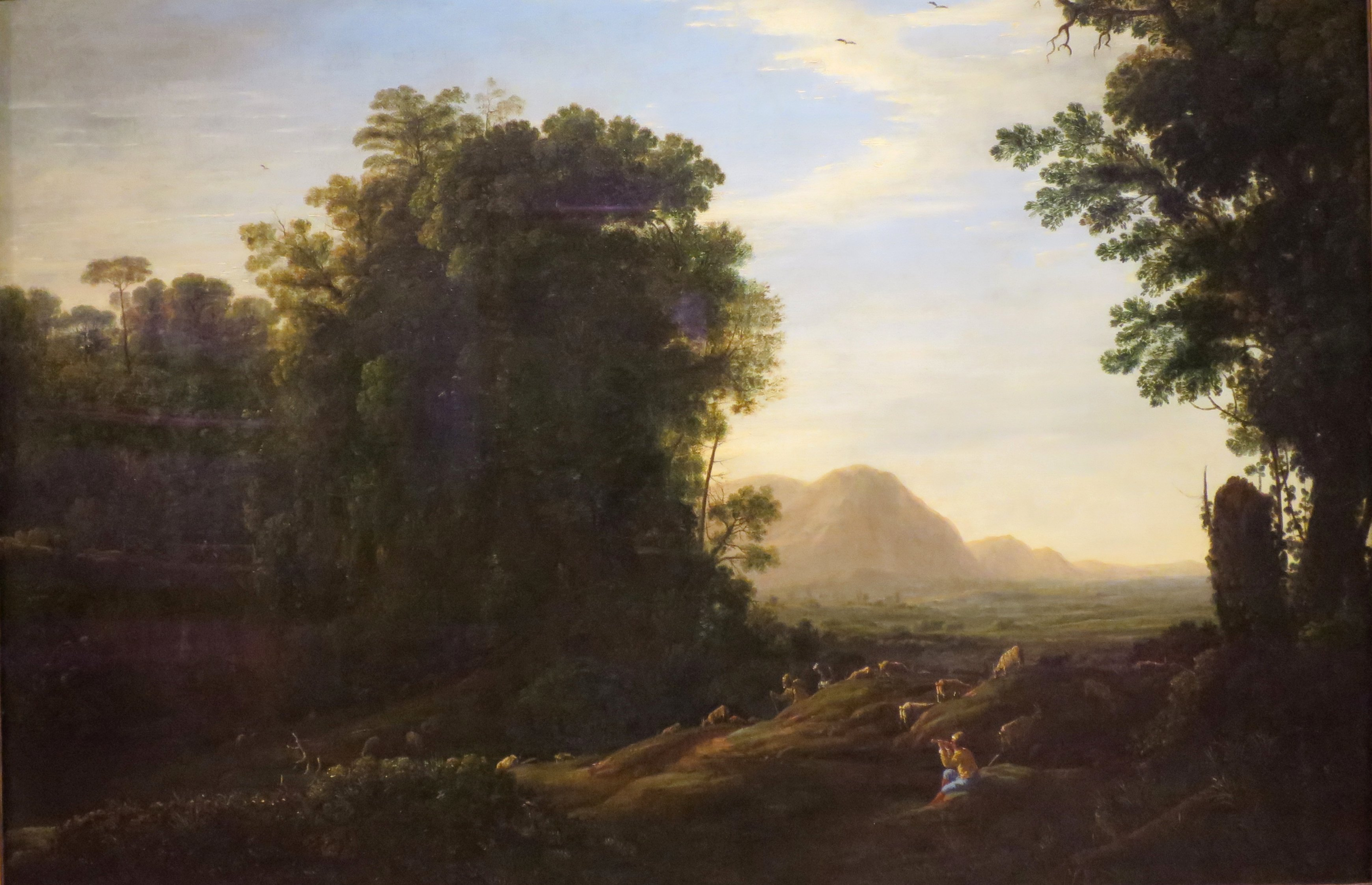 Landscape with a Piping Shepherd by Claude Lorrain, c. 1629-32, oil on canvas, Norton Simon Museum